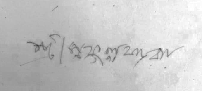 Digital reconstruction of Signature of Acharya Prafulla Chandra Roy